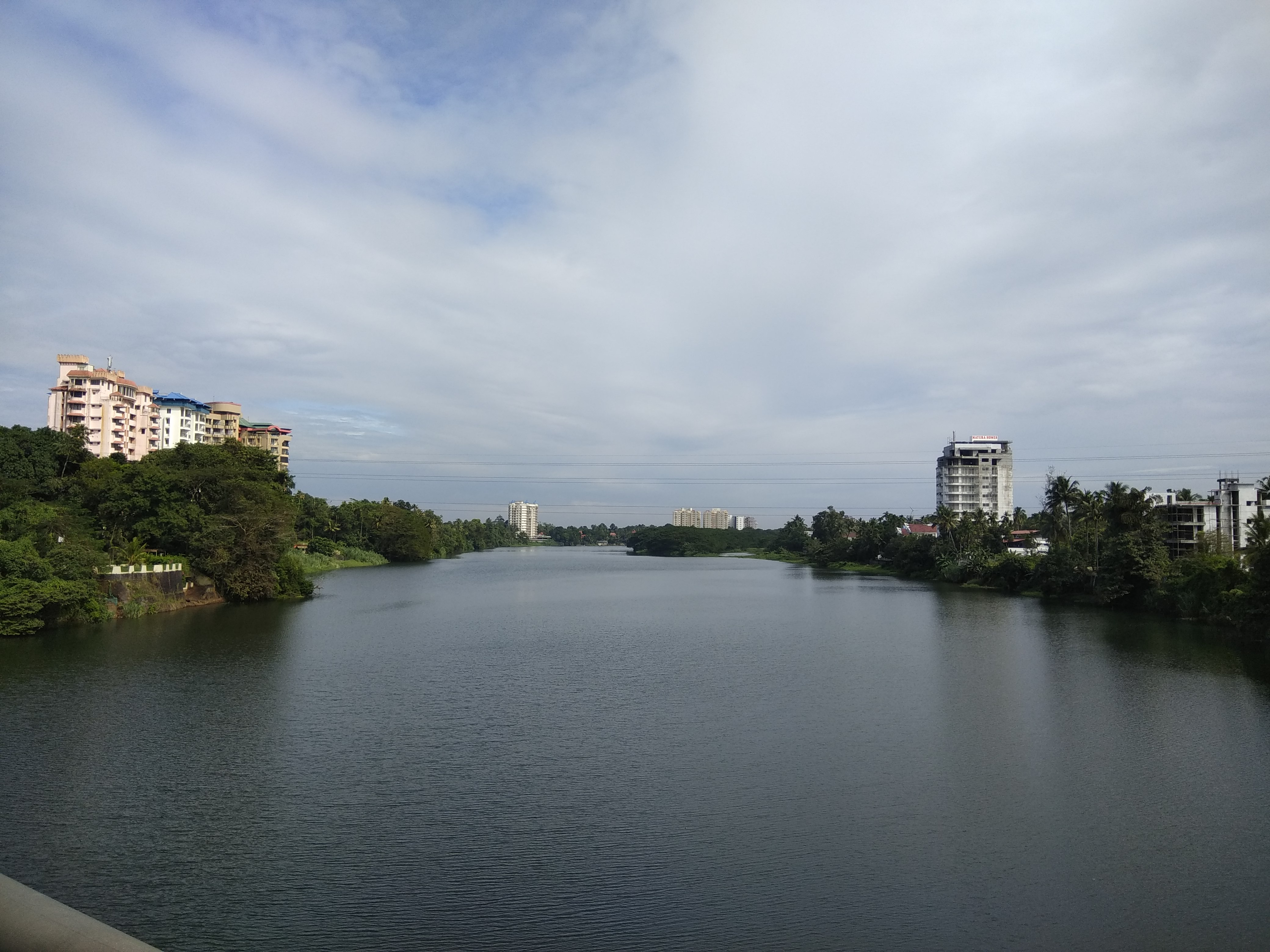 View of periyar river from mangalapuzha bridge, aluva, kerala, india